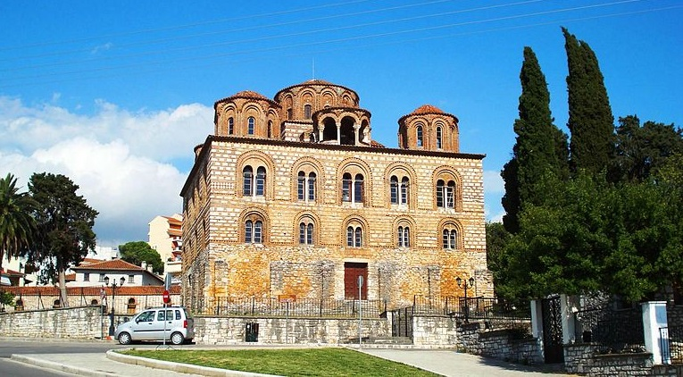 Parigoritissa church in Arta, Greece